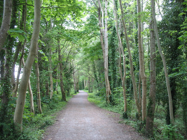 Lon Las Ogwen (2)